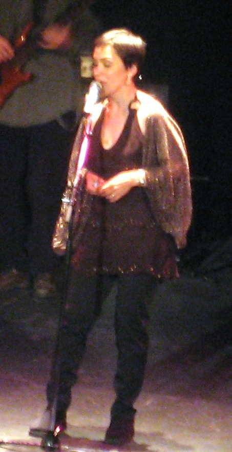 Photo of Susan Aglukark at the Prairie Arts Festival in Moose Jaw, Saskatchewan. (June 27, 2007)